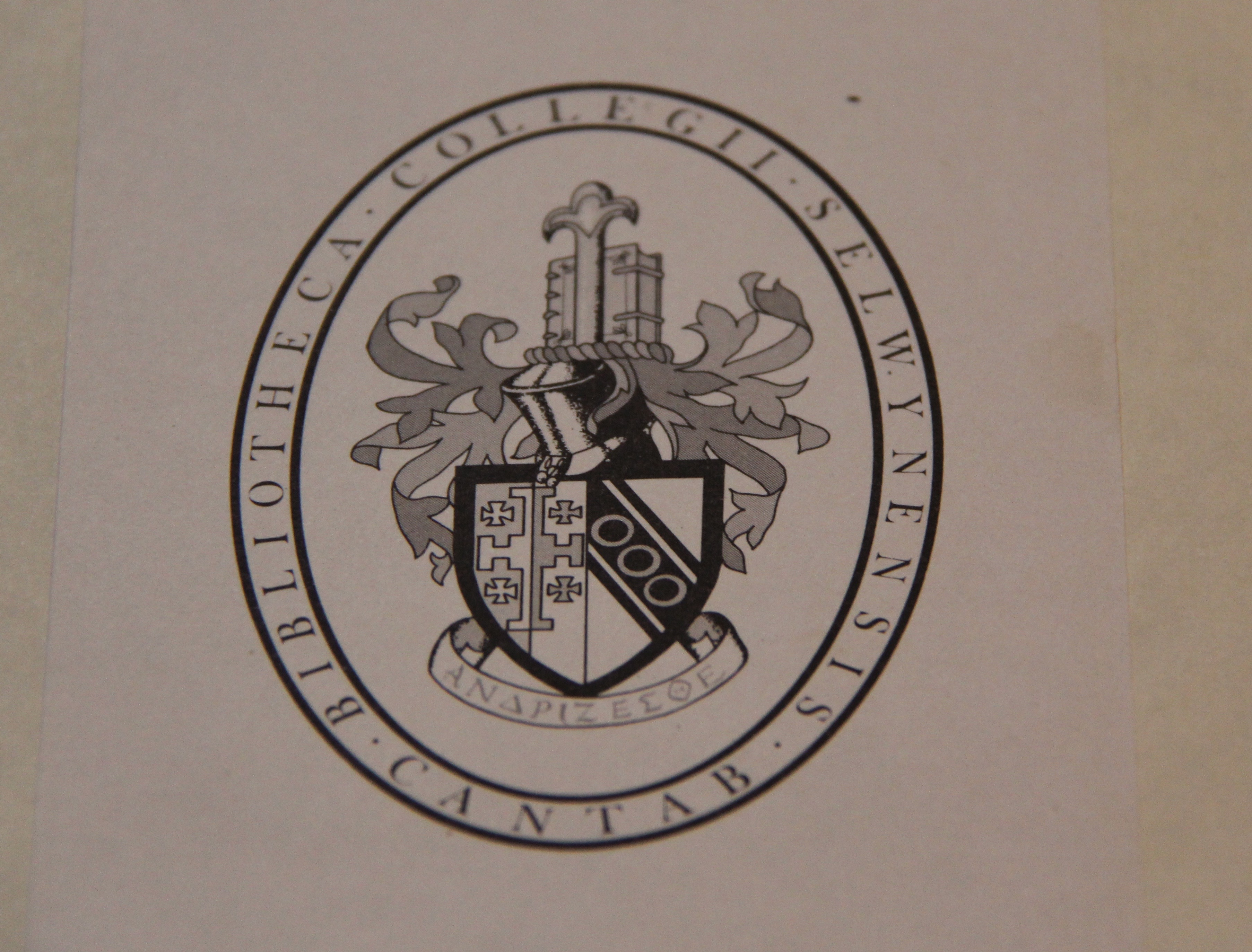 SelwynCollegeCambridge_Library_10